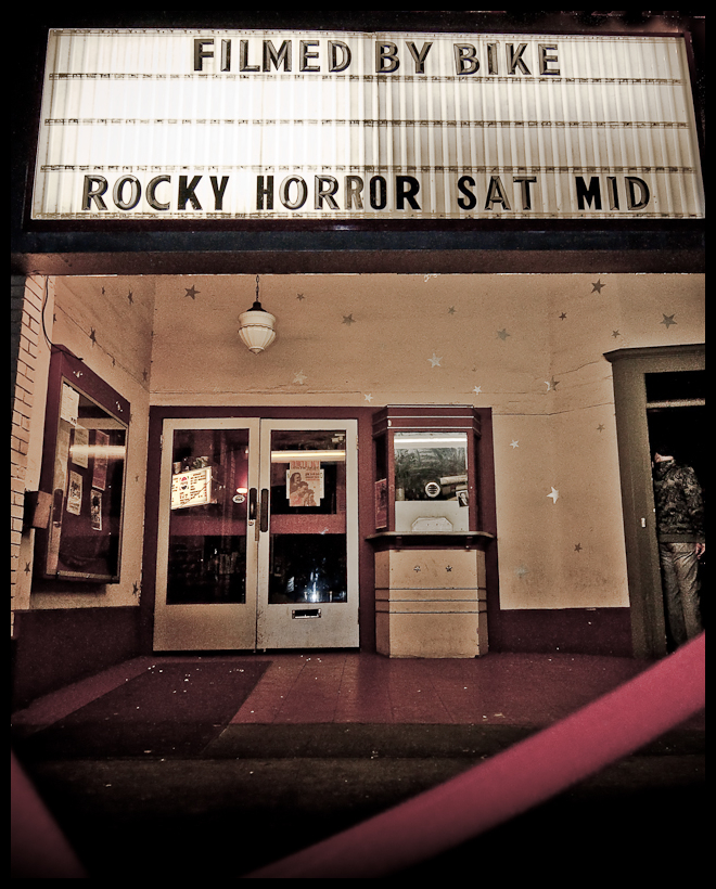 Clinton Street Theater, located in southeast Portland, Oregon, in April 2010